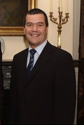 Crop of Secretary Paige and Irish Minister of Education Noel Dempsey expanded their partnership by signing an agreement focused on issues affecting children with special needs, particularly autism.